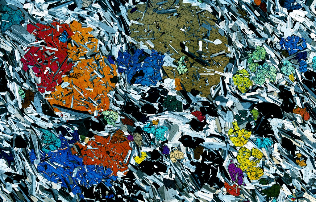 This picture shows a 30 micrometers thick rock section of a gabbro from the Rum Layered Intrusion (Scotland). Large clinopyroxene crystals are enclosed in a foliated fine grained groundmass of plagioclase and olivine. The clinopyroxene core crystallized at an early stage, at 1160°C. They were partly molten at 1200°C during successive hot magma injections and subsequently recrystallized, enclosing heat resistant groundmass crystals. This process is opposite to the classical view of cooling and crystallizing magmas. As a result, secondary minerals such as spinel were saturated and subsequently absorbed PGE ore. It has taken millions of year to form a rigid crust at the Earth surface, progressively built up by cooling lavas. Just imagine how apocalyptic it must have been! Today, we still find magma in the partially molten inner parts of the Earth, which erupts periodically and give a brief idea of such past time. 60 Millions years ago, huge eruptions were taking place in Scotland… One of the volcano looked like a huge cauldron, 4km in diameter and 1km deep. It was heated at extreme conditions, by hundreds of lava injections directly coming from the deep Earth at 1250°C. Early cooled rocks were being re-molten, in a fight between crystallization and melting. The crystals were deformed and their composition was changed during heating, cooling and compaction. The Scottish wind and rain have finally frozen the cauldron and started to erode it. Valleys now offer access to its deep parts, where we can read a fantastic tale, written of crystal letters! And who knows… a similar story may start tomorrow in Iceland… This is a stitched image of a 4x2cm sample, acquired with a Nikon Eclipse LV100-UDM-POL microscope, under cross polarized light. Credit: Julien Leuthold (distributed via ). (Low resolution jpg version. A TIFF high resolution version of 45.8 MB is available at )